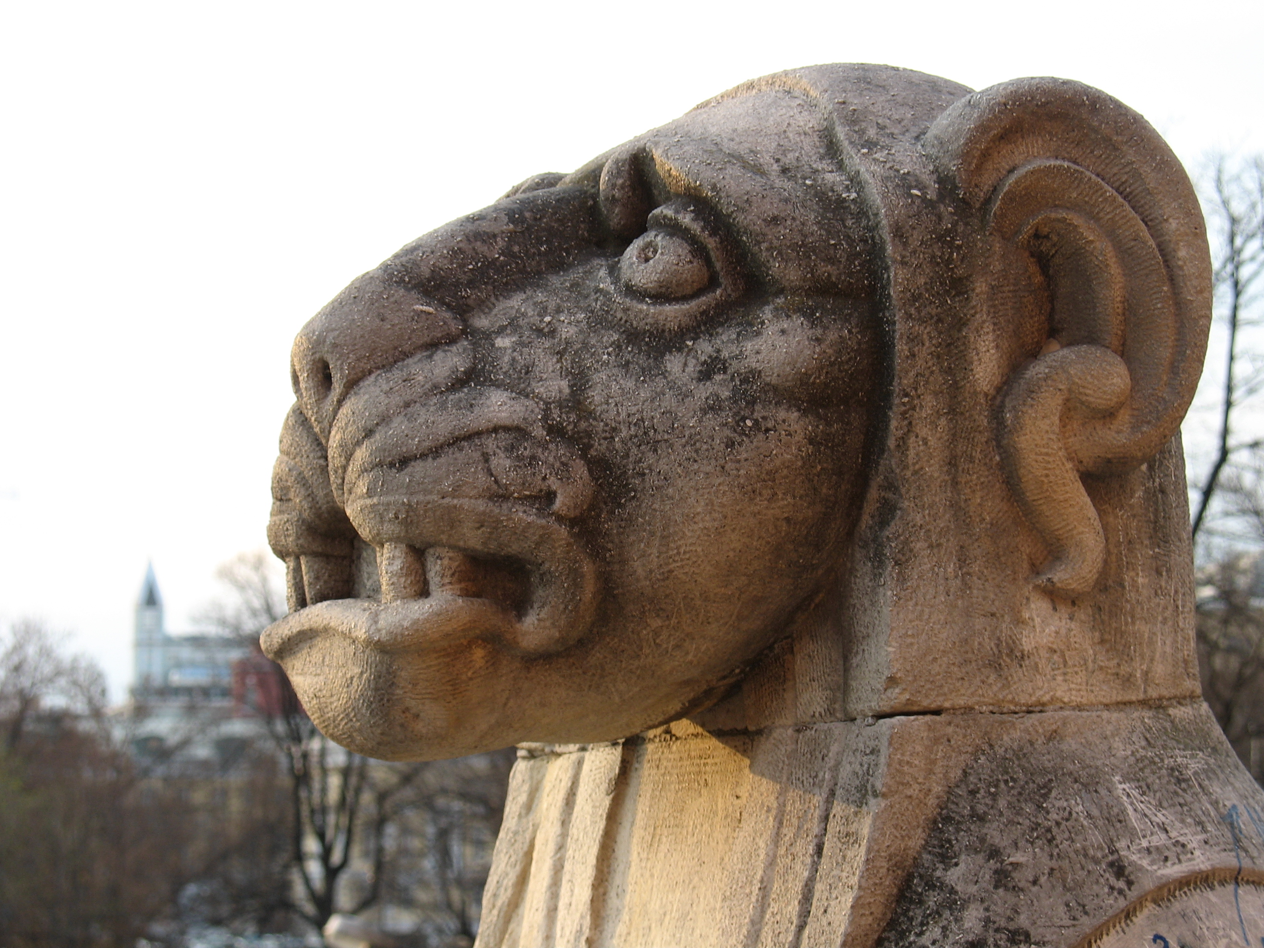 Grotto in Alexander Garden near from Moscow Kremlin